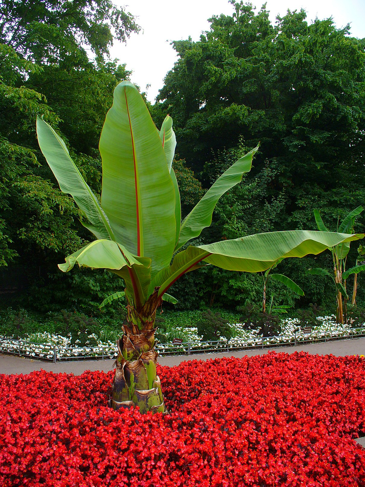 Ensete ventricosum, Musaceae, False Banana, Ethiopian Banana, Abyssinian Banana, habitus; Stadtgarten Karlsruhe, Germany.